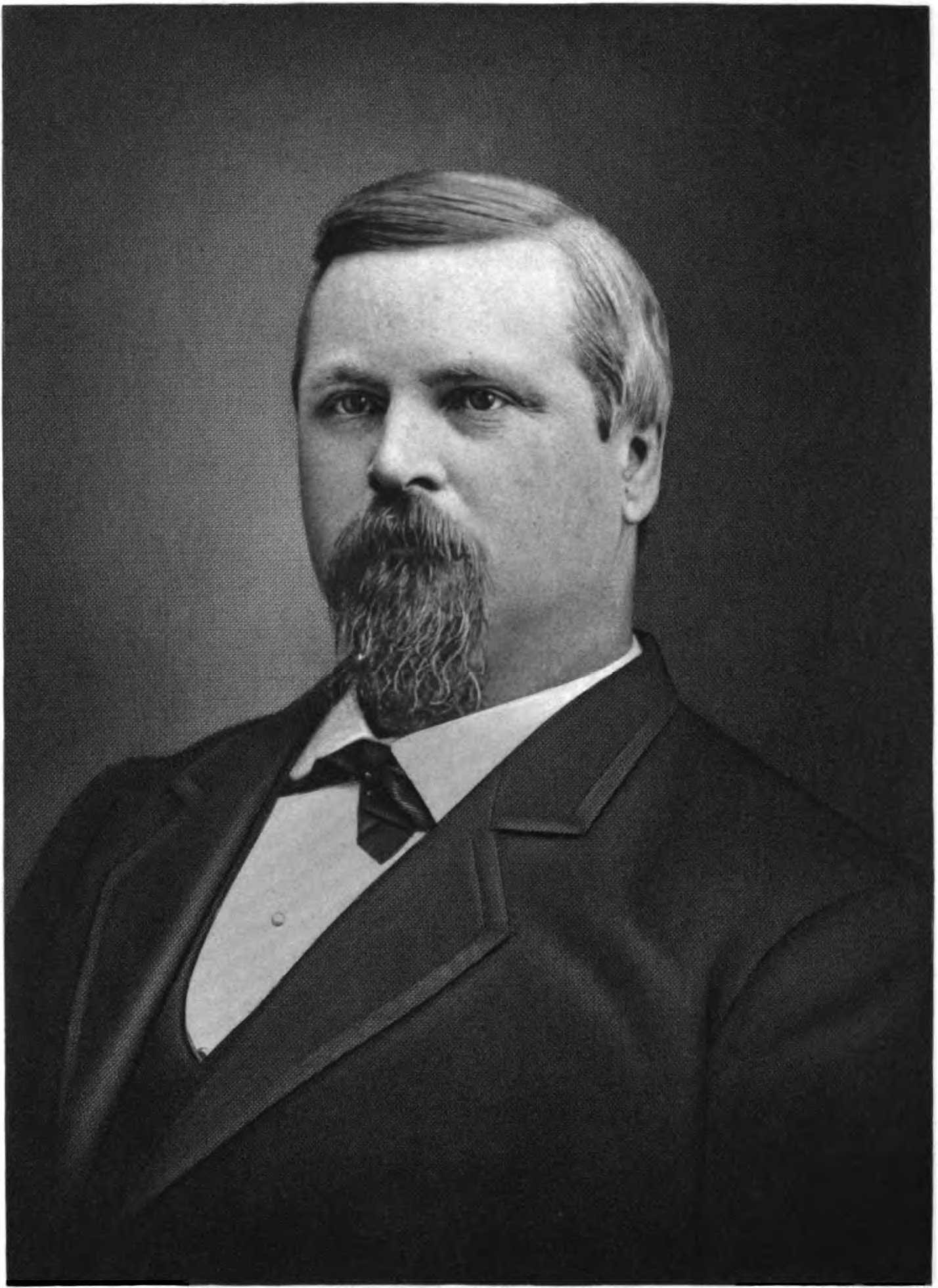 John B. Rice, member of United States House of Representatives from Ohio.